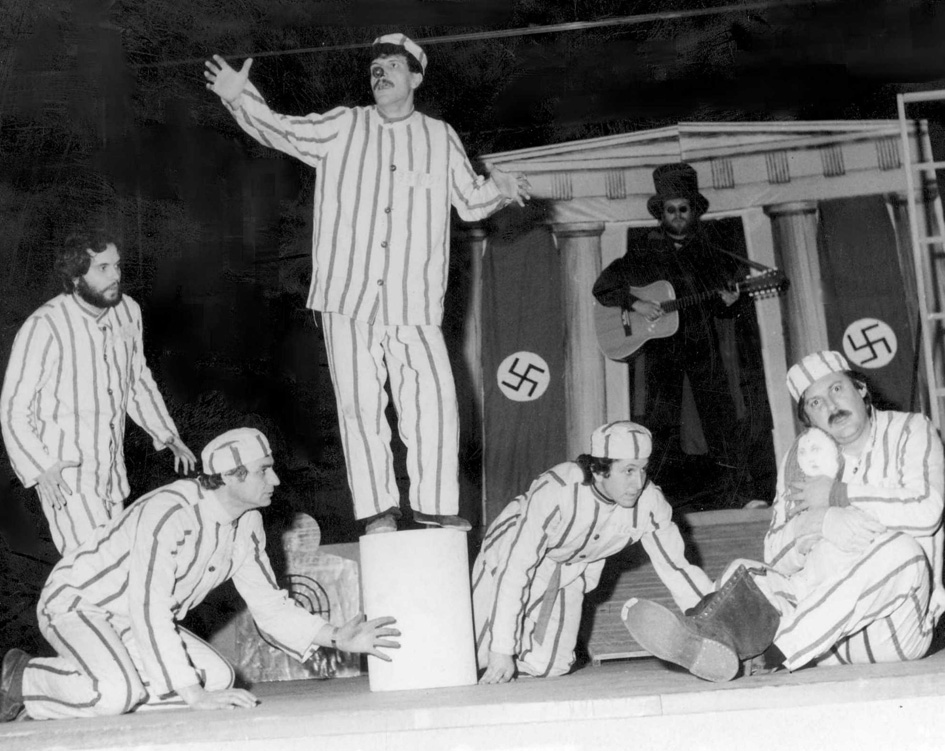 Generation ohne Abschied by Wolfgang Borchert, directed by Macedonian theatre director Bore Angelovski